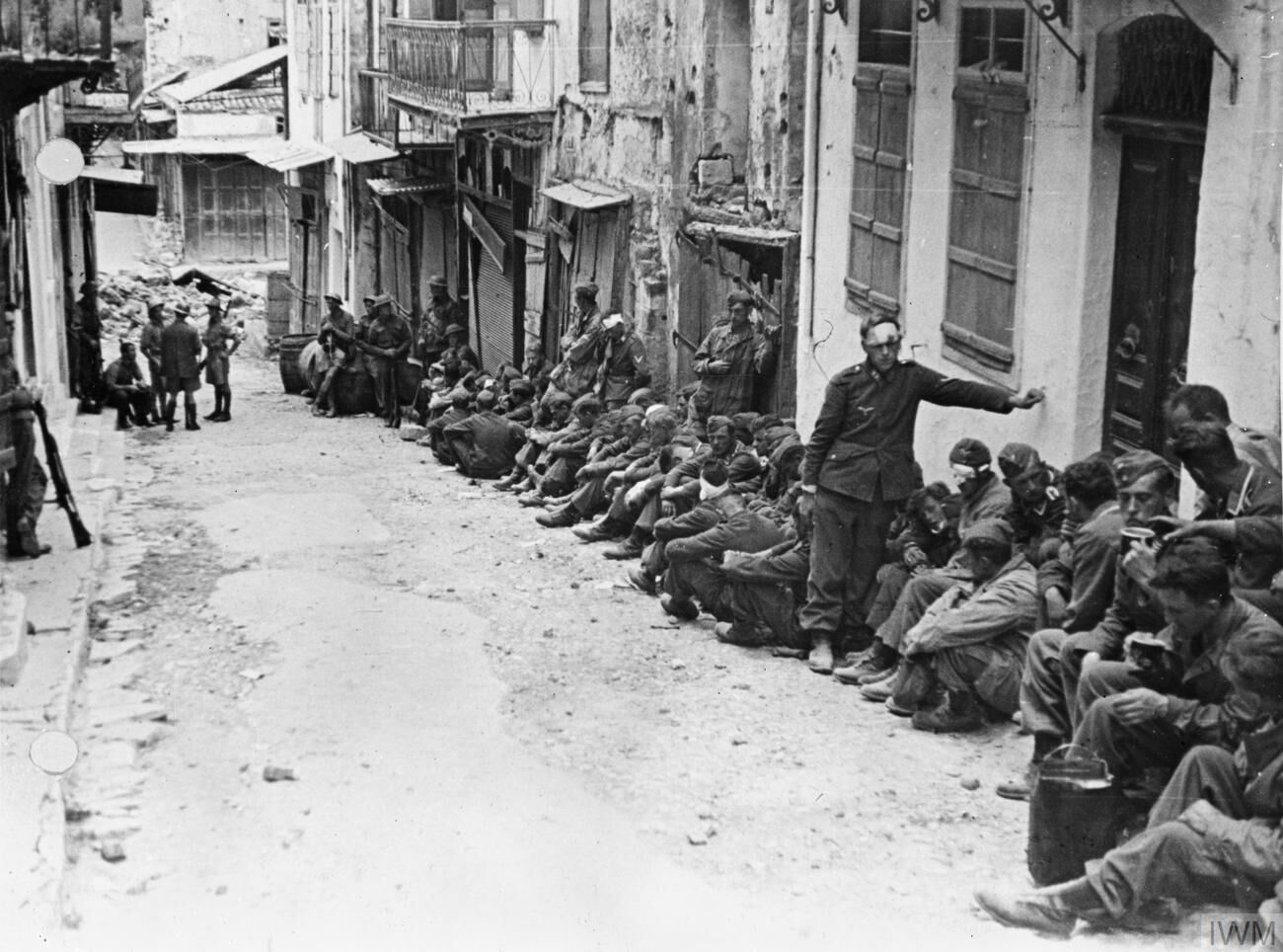 German prisoners under British guard